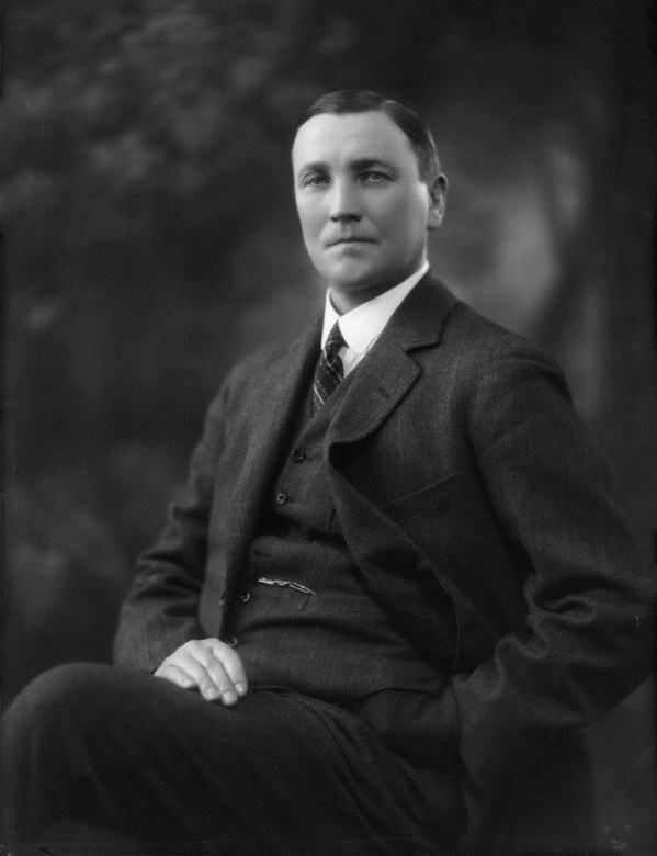 Nicolaas Christiaan Havenga (1882 - 1957), South African (Afrikaner) politician, leader of the Afrikanerparty, deputy Prime Minister from 1948 to 1954, then for a short time acting Prime Minister (29 Oct. - 30 Nov. 1954)